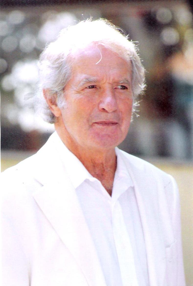 Photograph of Yurii Sh. Matros